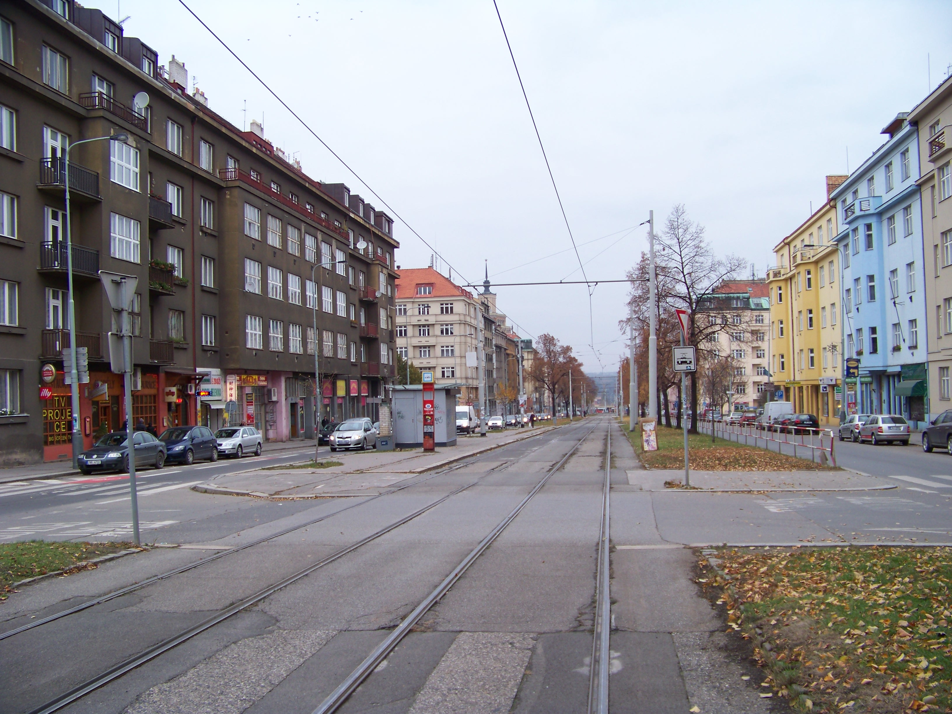 Dejvice and Bubeneč, Prague, the Czech Republic. Jugoslávských partyzánů Street. - Google Maps - Google Earth